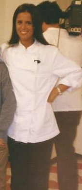 Malala López Grandio- cocinera argentina